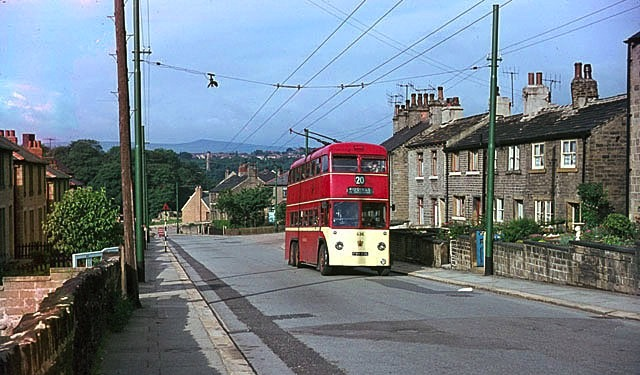 British Trolleybuses - Huddersfield The terminus of service 20 (Newsome South) at Newsome Road. The trolleybuses turned by simply reversing into Caldercliffe Road just behind the trolleybus. The Huddersfield trolleybus system used exclusively 3-axle vehicles in the post-war period, many of them being pre-war chassis with new bodies. Until the late 1950s, the entire network of Huddersfield Corporation's town services was run with trolleybuses. There was also a joint committee between the Council and British Railways which ran bus services to surrounding areas. The two operations were managed as a single undertaking but were legally separate entities. The scenery shows the typical stone-built houses of the area. The view is basically unchanged; even the mill chimney in the distance at Armitage Mills has survived. For a slide show of British Trolleybuses in the late 60s